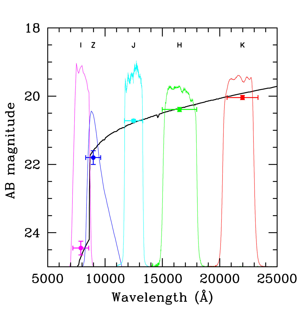 Magnitude of the Gamma-Ray Burst GRB 050904 as observed with FORS2 and ISAAC in the various filters. The bandpasses of the ESO filters are overplotted as well as the best-fitting template which allowed the astronomers to measure the photometric redshift. The clear drop of the flux of the object in the I-band compared to the others is the telltale signature of a high-redshift object.